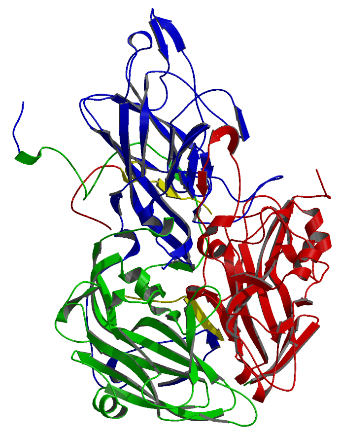 Structure of Seneca Valley Virus-001 based on coordinates from 3cji (PDB format). Created with MolScript and Raster3D.